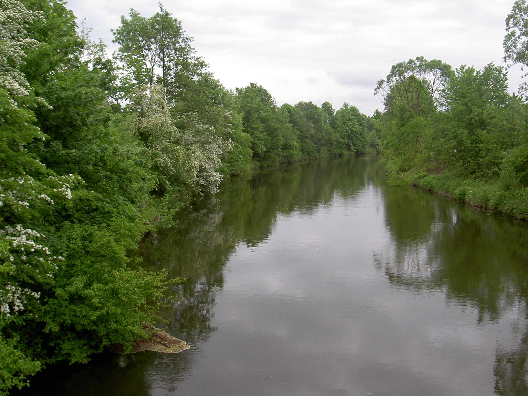 River Lavant near St. Paul, Carinthia, Austria